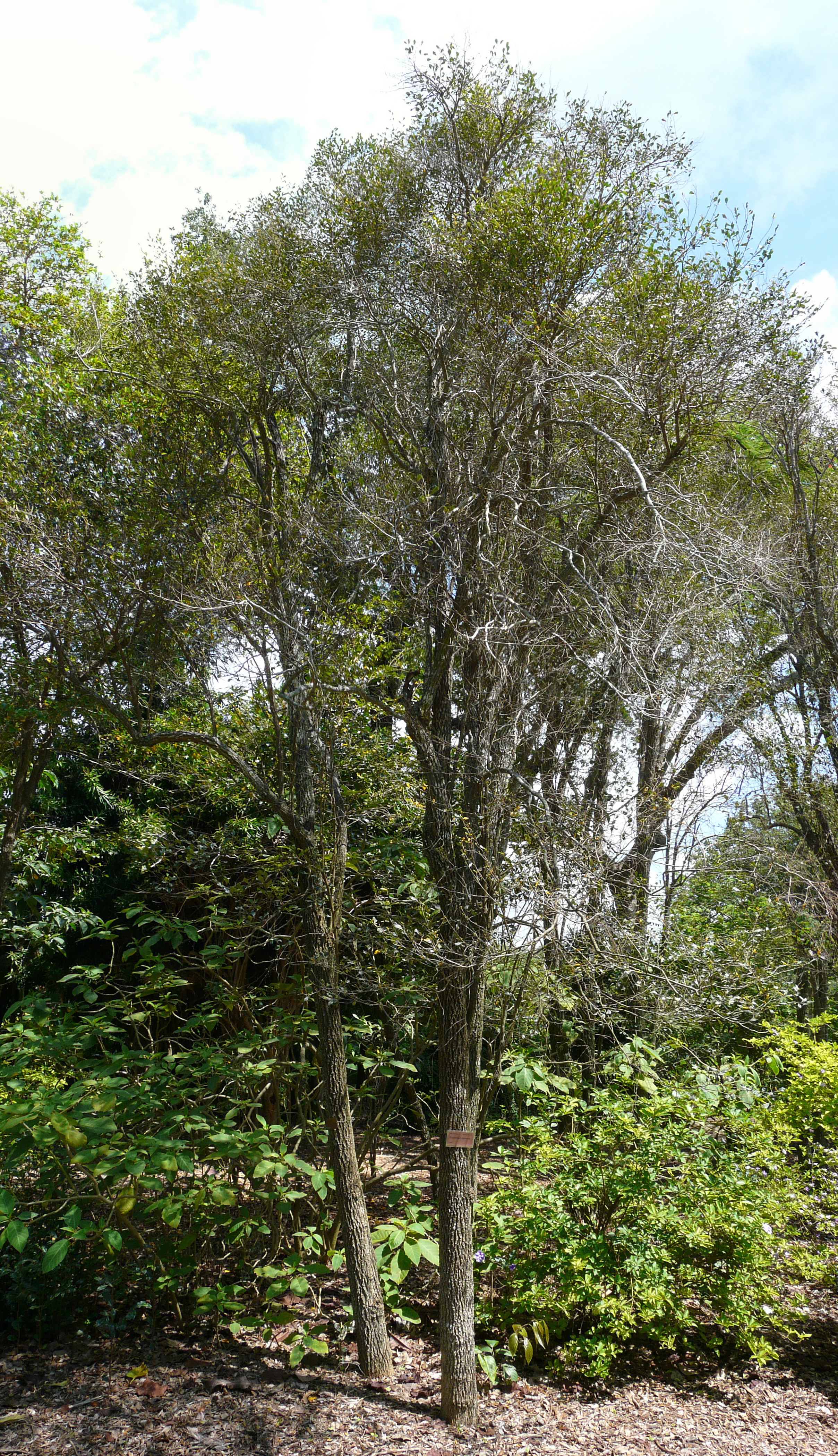 Espadaea amoena global view